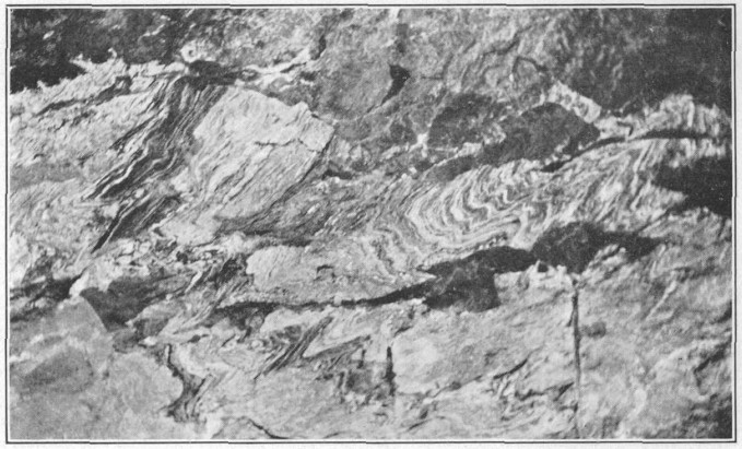 Figure caption: Closely Folded Micaceous Marble of Conestoga Limestone in quarry half a mile northwest of Quarryville.